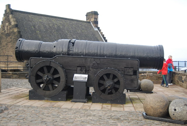 Edinburgh Castle - Roaring Meg. A large mortar gun.